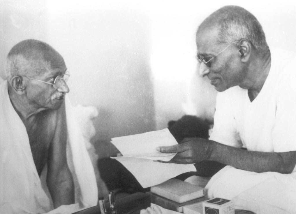 Gandhi speaking to Chakravarthi Rajagopalachari during the Gandhi-Jinnah talks at Birla House, Mumbai, September 1944.